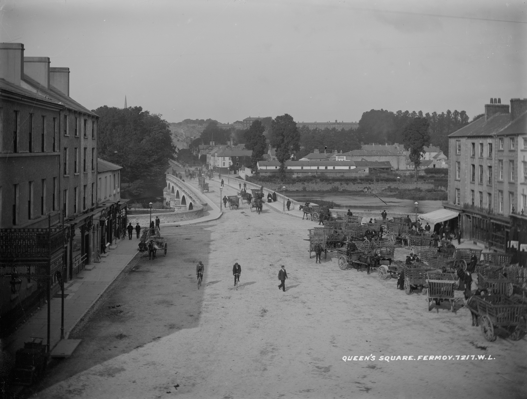 Queens Square in Fermoy with that fine bridge across the Blackwater dominating the shot. While location and subject of this French shot were already clear, we lacked a more refined date range. Rising almost solo to the challenge, [/photos/gnmcauley/ Niall McAuley]'s detective work suggests that the date range could be refined to 1900 +/- between 3 to 5 years. Thanks also to [/photos/beachcomberaustralia/ beachcomberaustralia], [/photos/91549360@N03/ O Mac], [/photos/johnspooner/ John Spooner], [/photos/vab2009/ Vab2009], and others for the extra info and context on the image. Photographer: Robert French Collection: Lawrence Photograph Collection Date: Catalogue date c.1865-1914 (though likely c.1897-1903) NLI Ref: L_ROY_07217 You can also view this image, and many thousands of others, on the NLI’s catalogue at